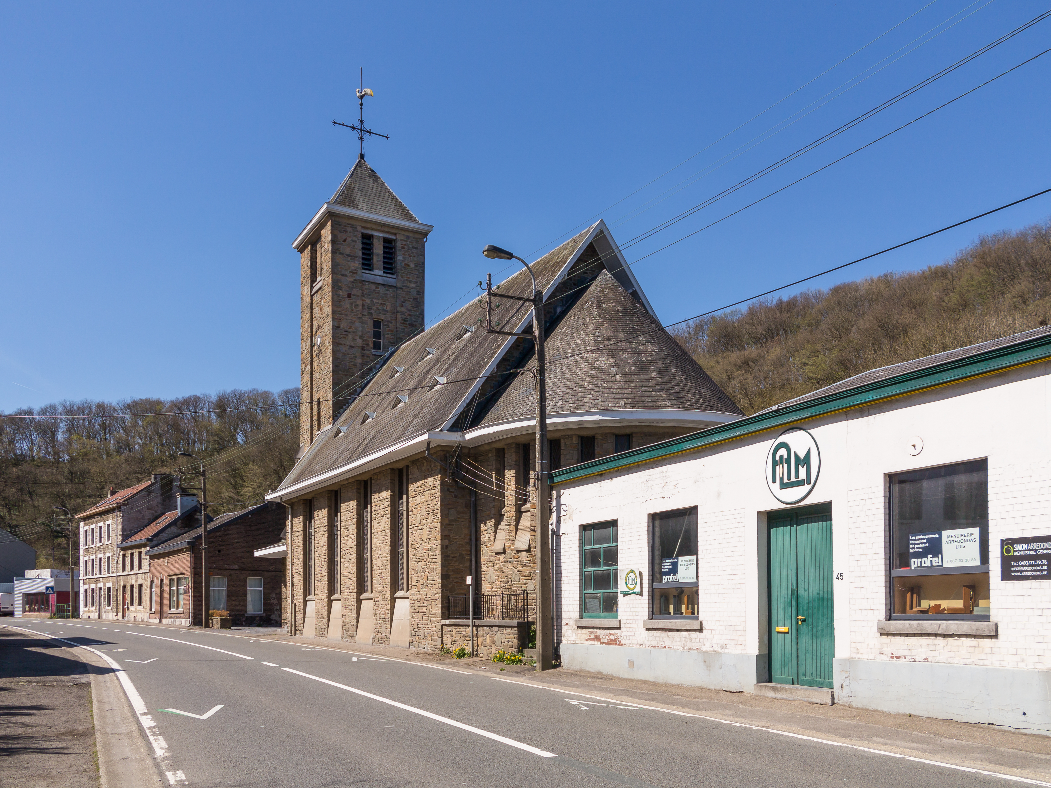 between Verviers and Limbourg, church